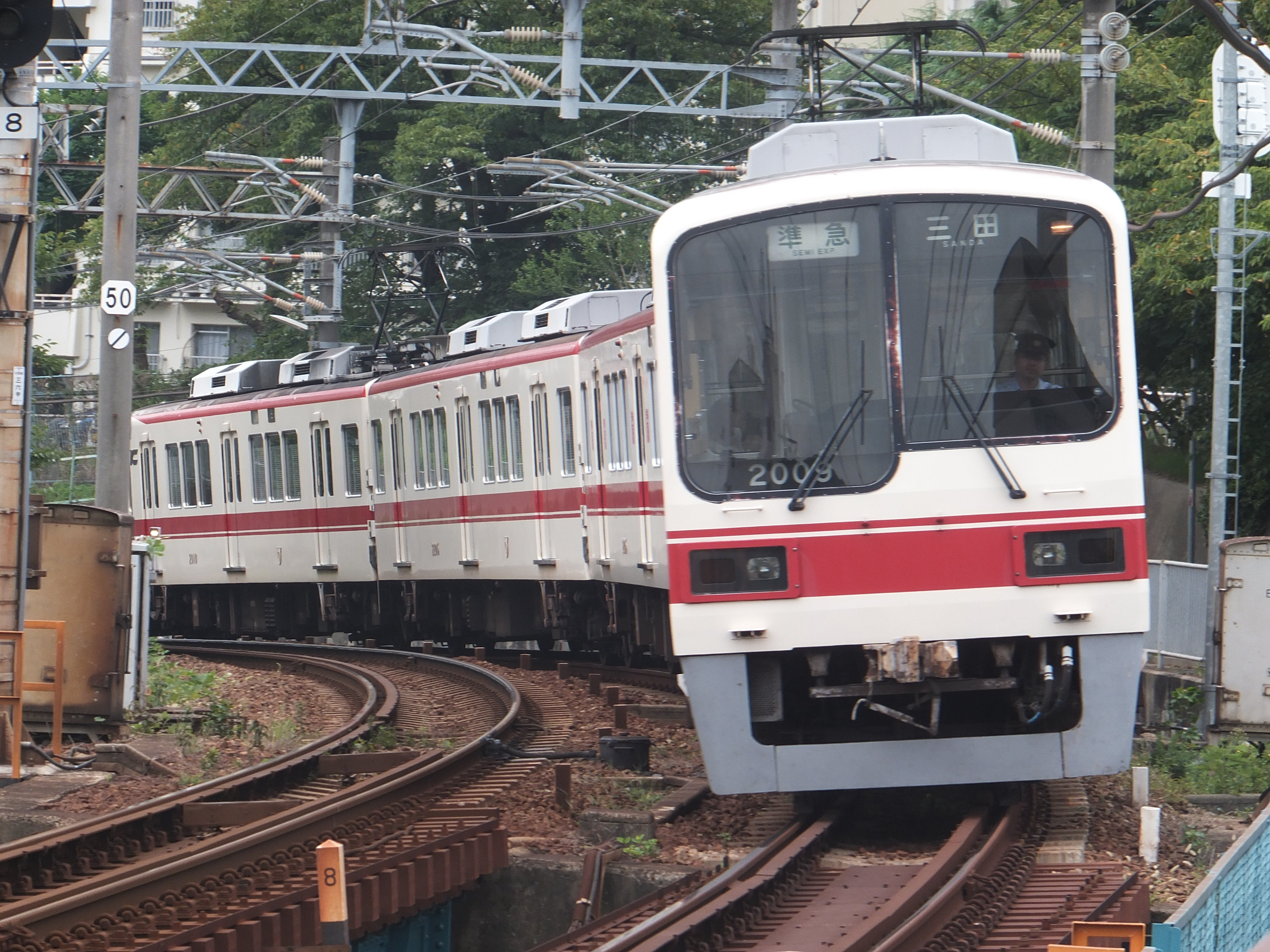 Kobe Electric Railway 2000 series 4-car EMU set 2009 approaching Nagata Station